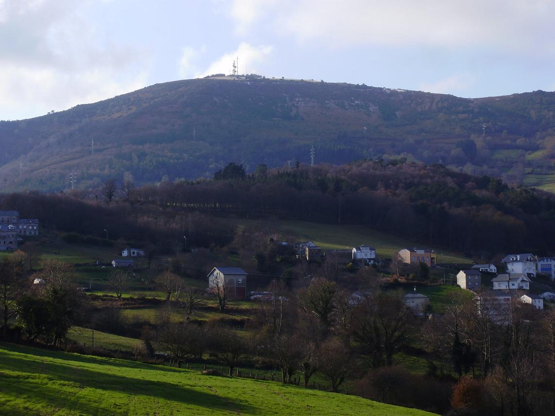 This picture shows the Pena Queimada range, in Boal (Asturias, Spain), from the country house of El Caleyo.